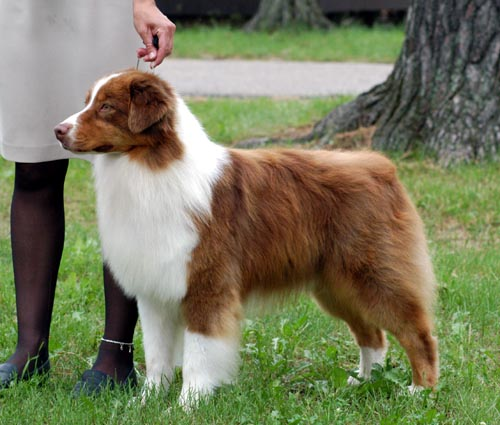 Cowboy Aussie Echo